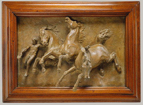 Bas relief sculpture of The Horses of Anahita, or 'The Flight of Night,' by Boston artist William Morris Hunt. Donated to the Metropolitan Museum of Art, New York, by the painter's brother, architect Richard Morris Hunt of New York. Collection of the Metropolitan Museum